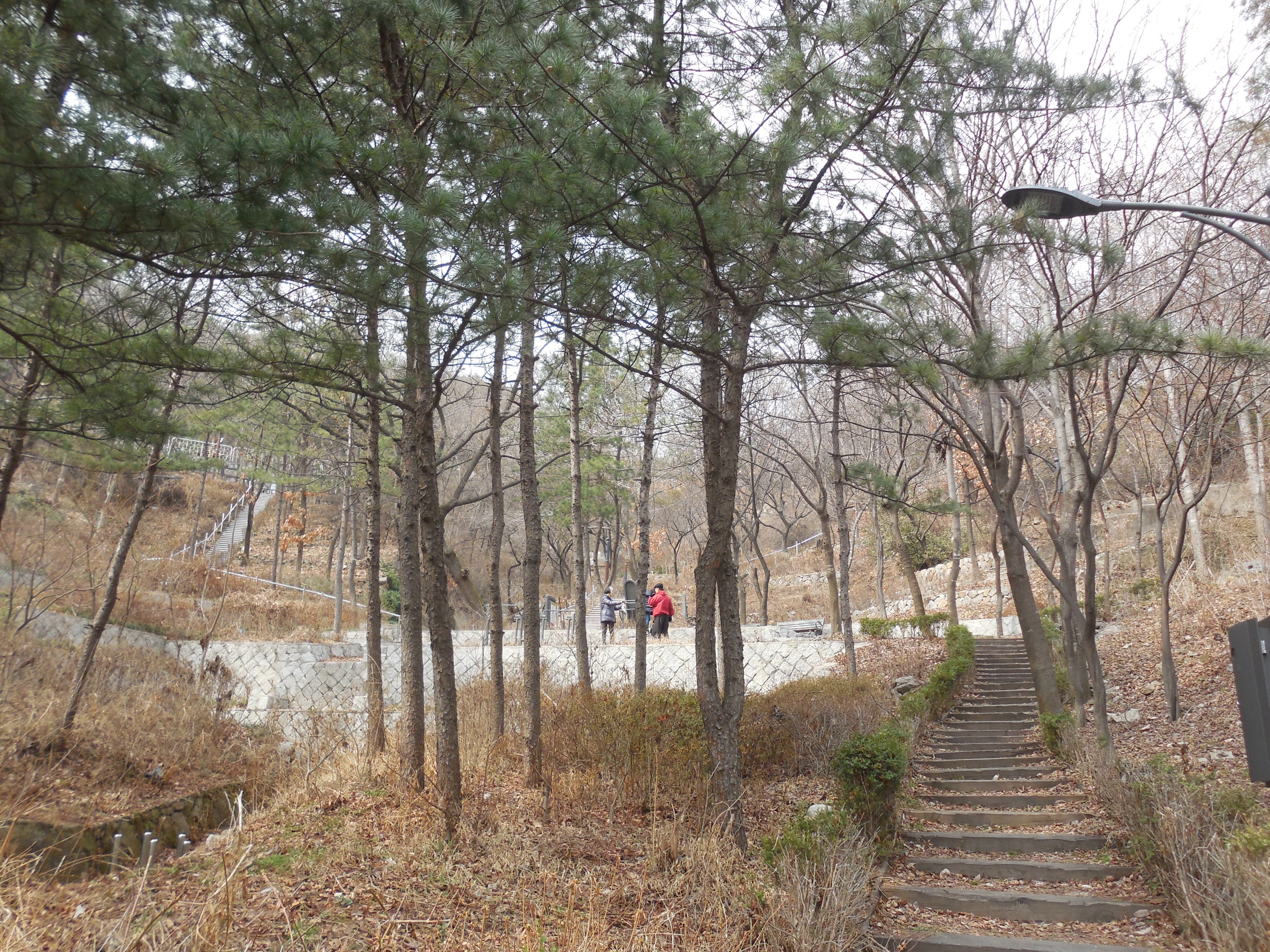 Site of Cheonghwigak, house of Kim Suhang.